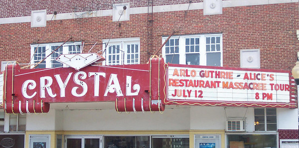 Crystal theater amrquee - July 12, 2006.